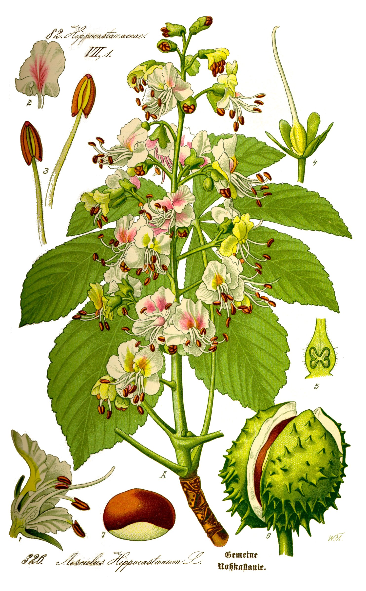 Clean version of Image:Illustration_Aesculus_hippocastanum0.jpg Name Aesculus hippocastanum Family Sapindaceae